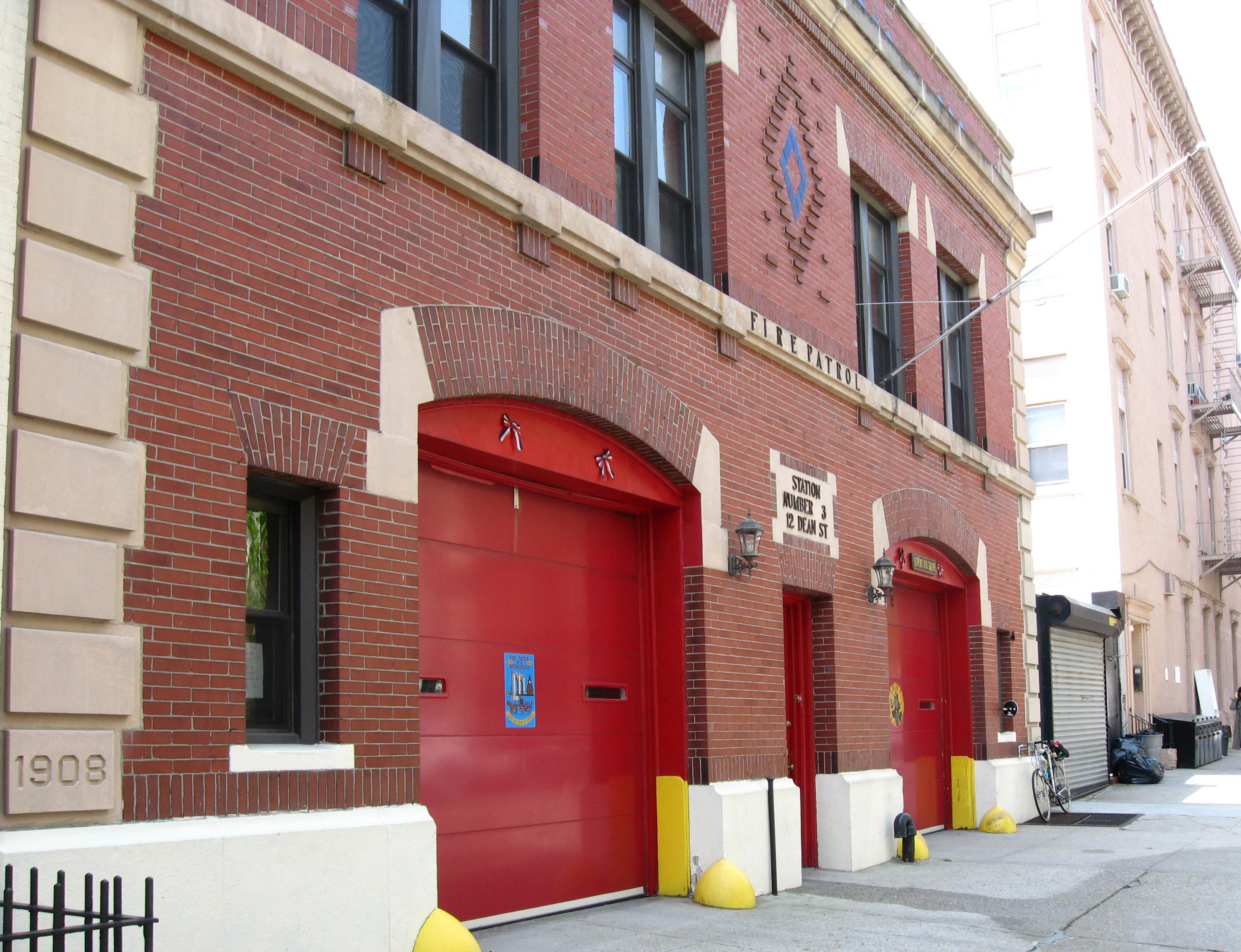 Looking southwest at New_York_Fire_Patrol House Number 3 on Dean Street at nearly noon of a clearing spring day during Five Boro Bike Tour. Photographer's transport in background.